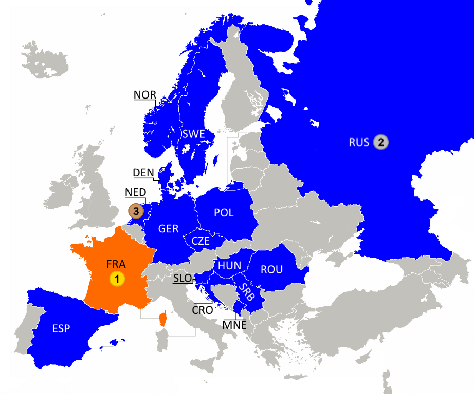 Participants and winners of the 2018 European Women's Handball Championship. Countries of the European Handball Federation Host country